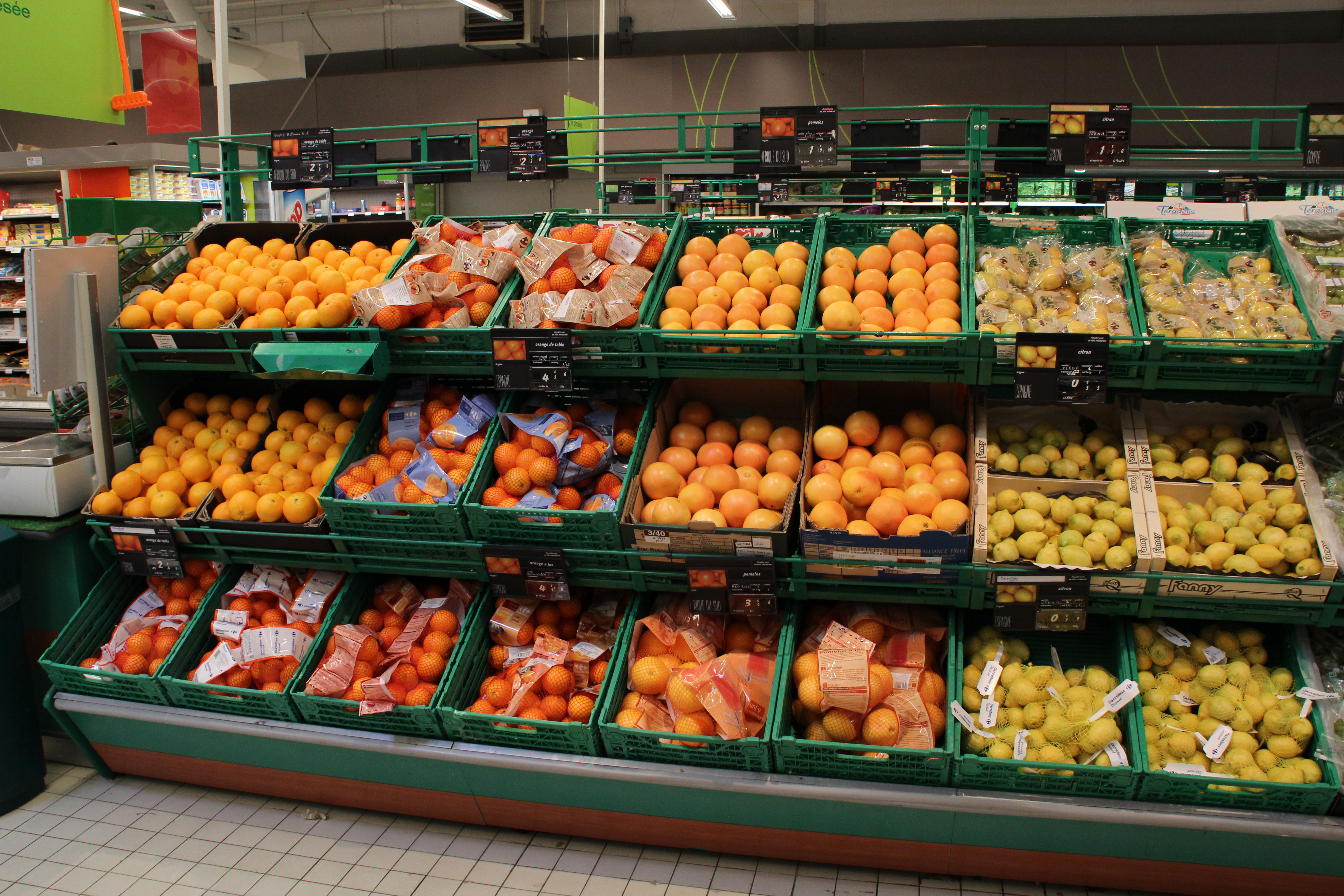 Supermarket Carrefour Market in Voisins-le-Bretonneux, France.